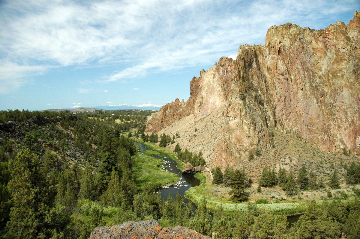 A scenic view of Smith Rock, central Oregon.